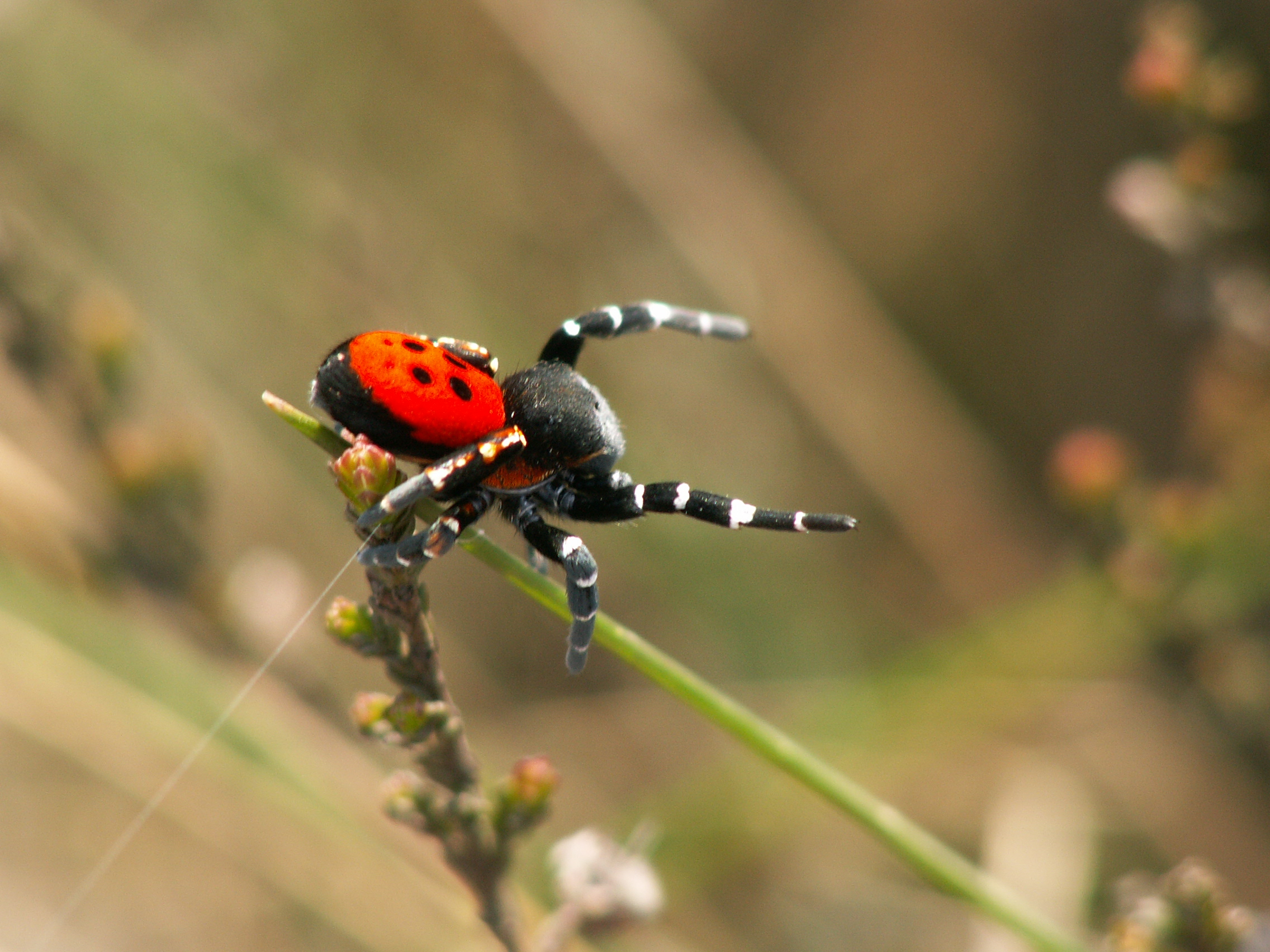 This male spider Eresus sandaliatus is trying to pick up the scent of a female with organs on his legs. Hoge Veluwe, The Netherlands